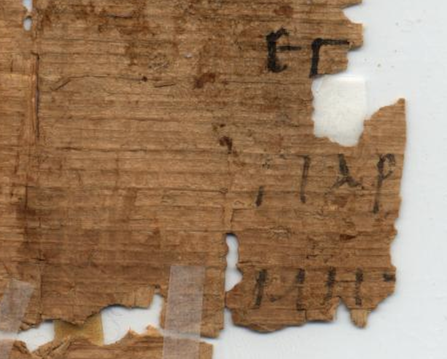 Papyrus 1, flyleaf εγεν̣[ παρ[ μητ̣[ The text is very fragmentary, but probably says something about Jesus being born by Mary.